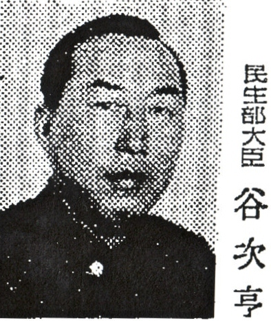 Gu Ciheng (Ku Tzu-heng) (1898 - 1977)